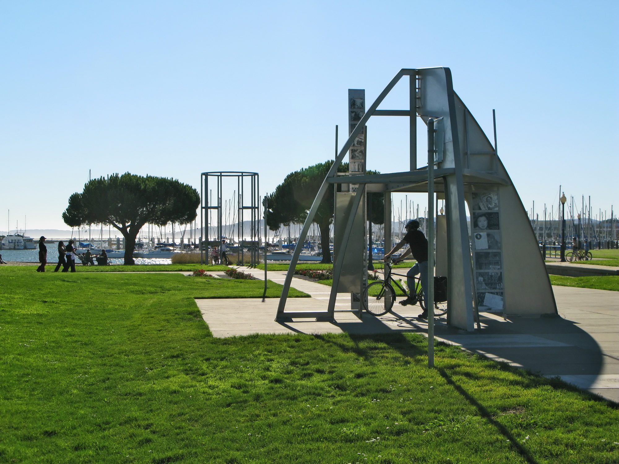 Rosie the Riveter monument in Richmond's Marina Bay, October 2007 JA 05:34, 26 October 2007 (UTC)